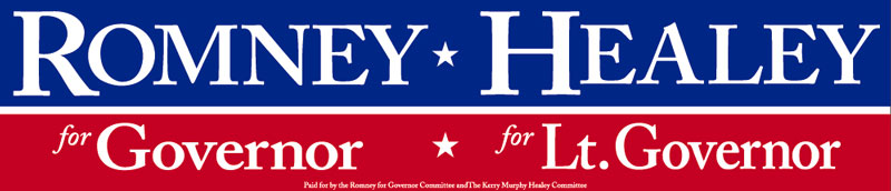 Mitt Romney-Kerry Healey 2002